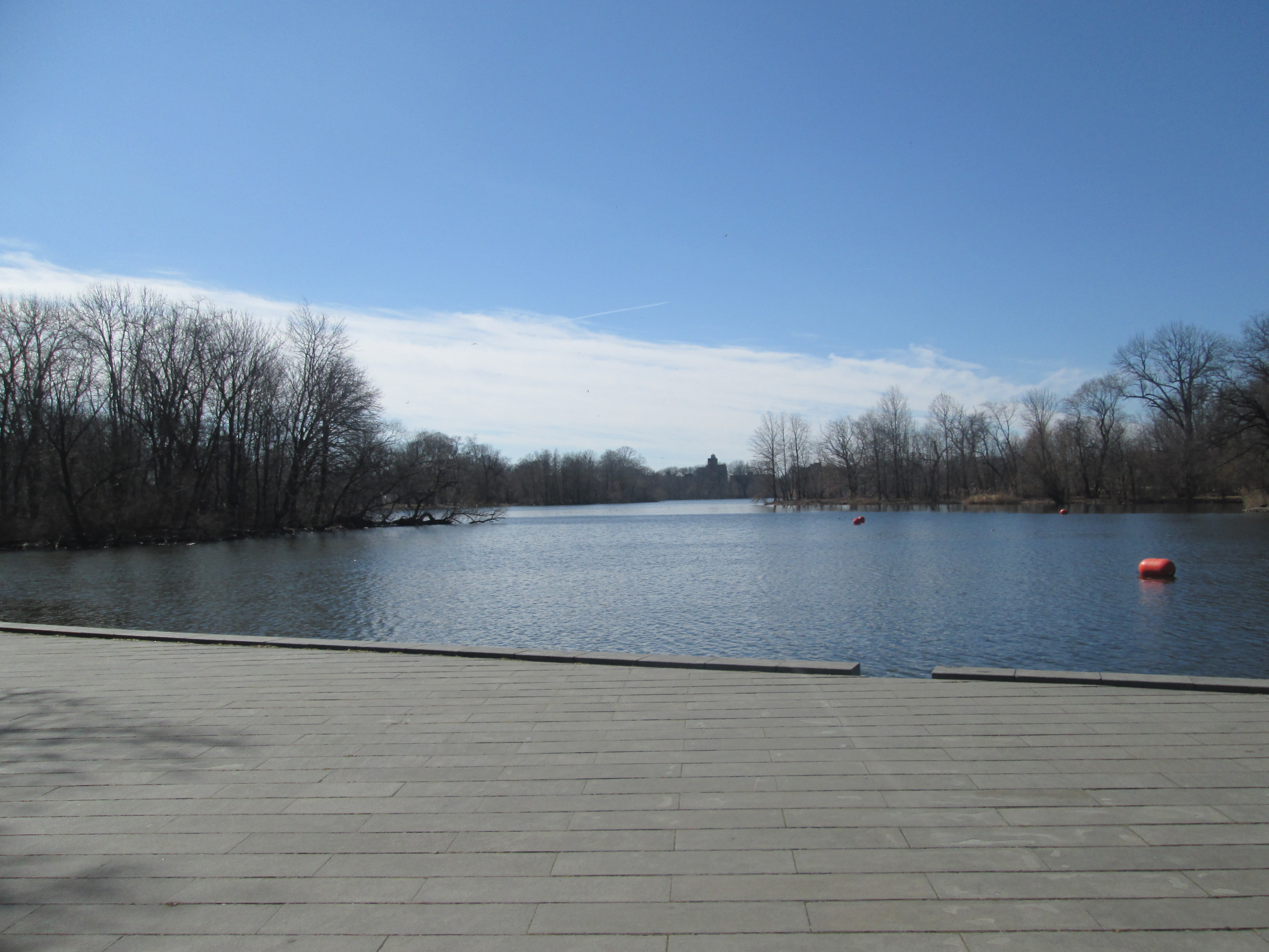 Prospect Park (Brooklyn) in Brooklyn, New York